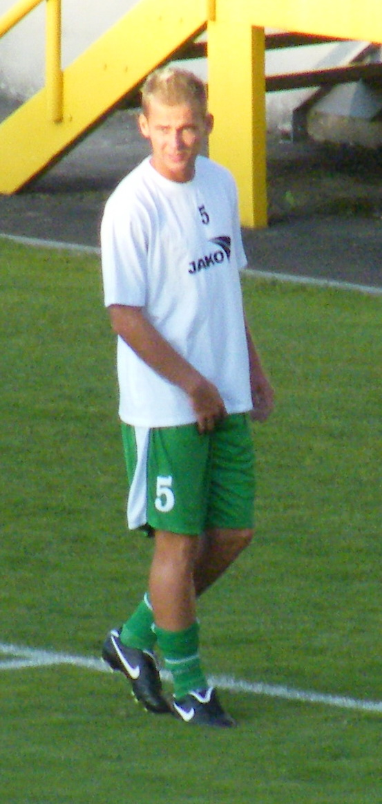 Zsolt Gévay Hungarian association football player.